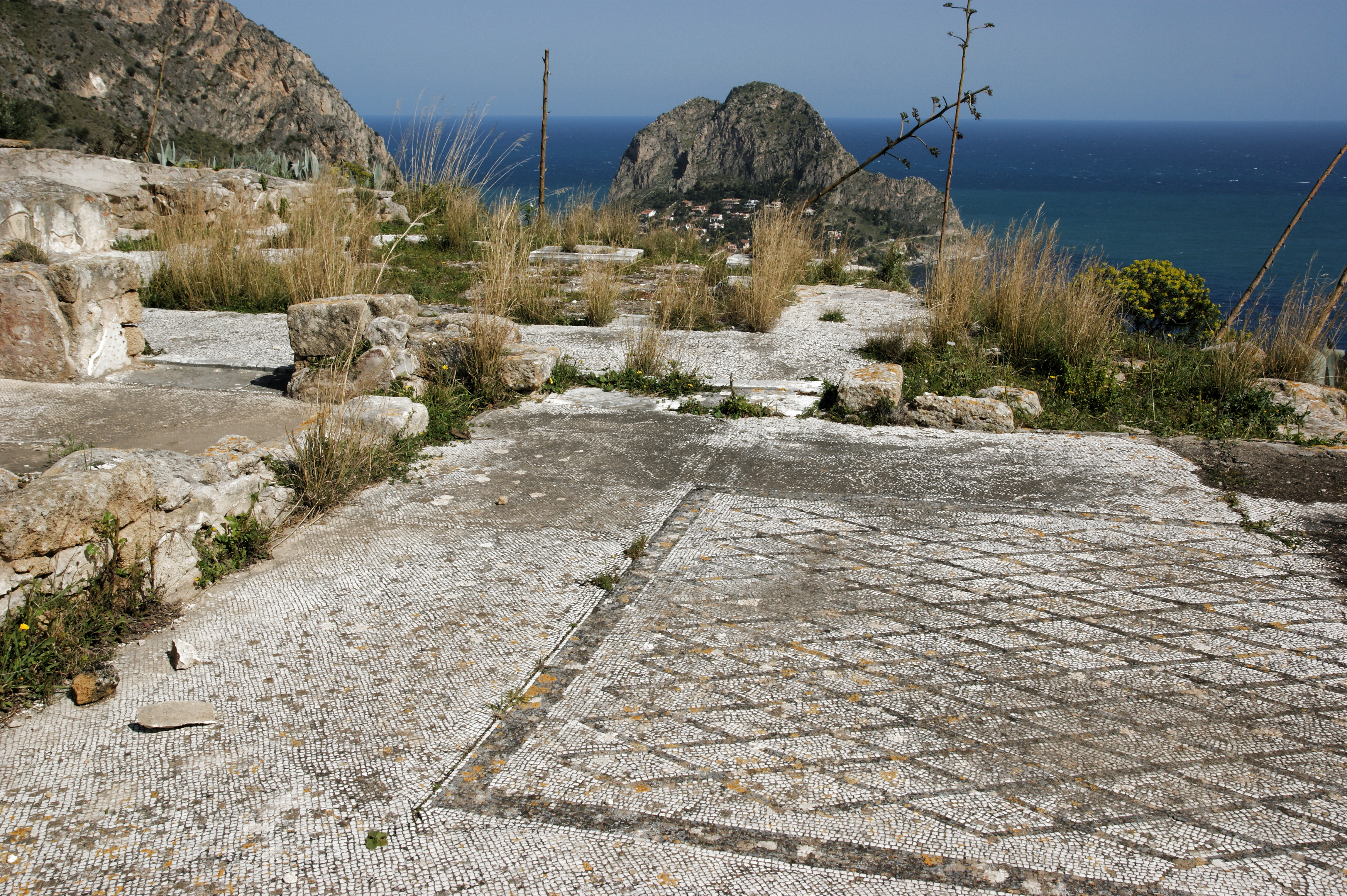 Roman mosaic in Solunto, ancient Greek city situated at about 16 kilometres (10 mi) east of Palermo, Sicily.